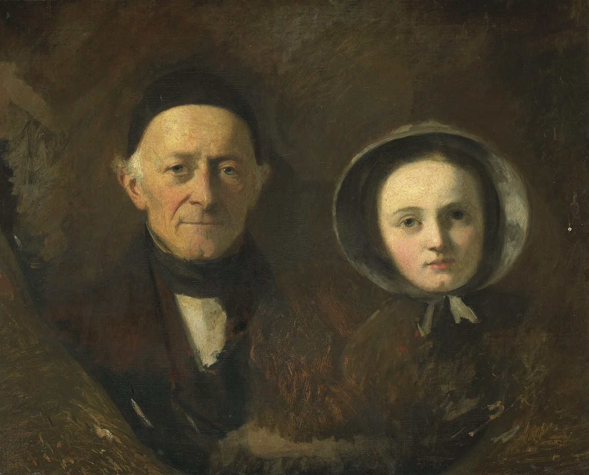 Portrait of Johann Joseph Hermann and Ida Schwartze, father-in-law and eldest daughter of the painter oil on canvas 62.5 cm x 77.5 cm